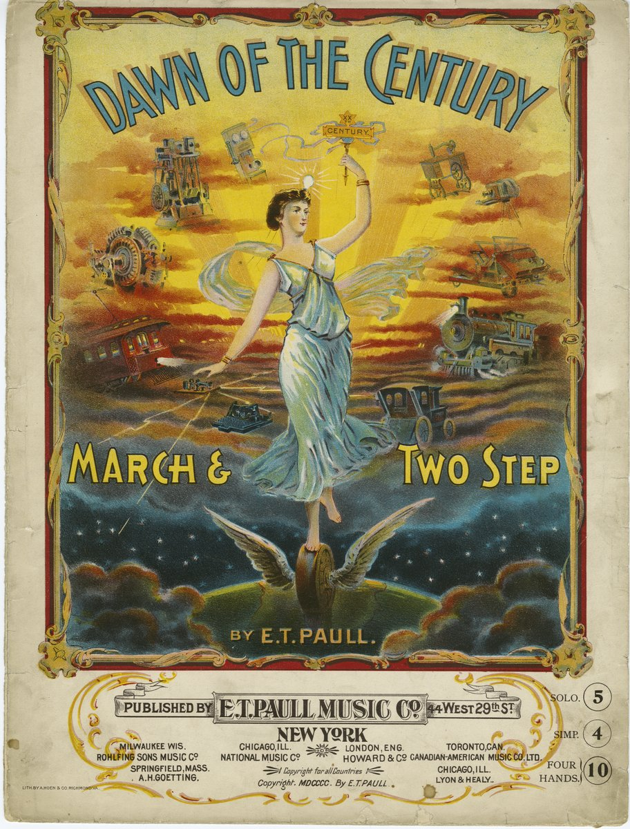 "Dawn of the Century" March & Two-Step, sheet music cover. Cover artwork shows allegorical woman holding a standard identifying her as "XXth Century". She has an electric lightbulb atop her head and stands on a winged wheel, representing Progress. Around her are examples of modern technology and invention, including a typewriter, telegraph key, electric streetcar, dynamo, engine, telephone, sewing machine, camera, printing press, locomotive, and "horseless carriage" type automobile.